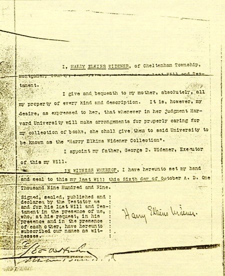 Will of Harry Elkins Widener, Register of Wills, Montgomery Co., PA Book 40, page 85